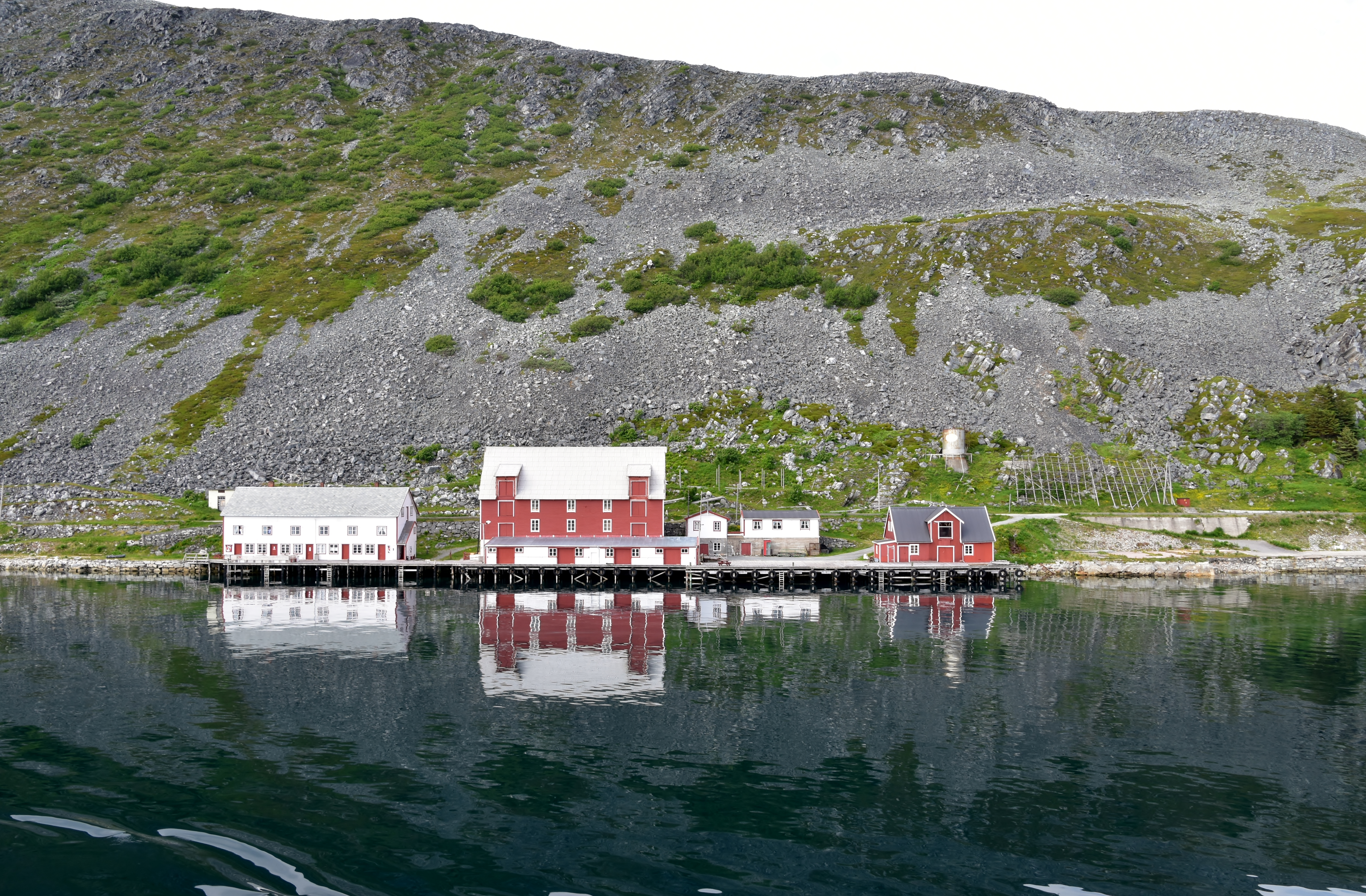 Kjollefjord, far northern Norway (3)